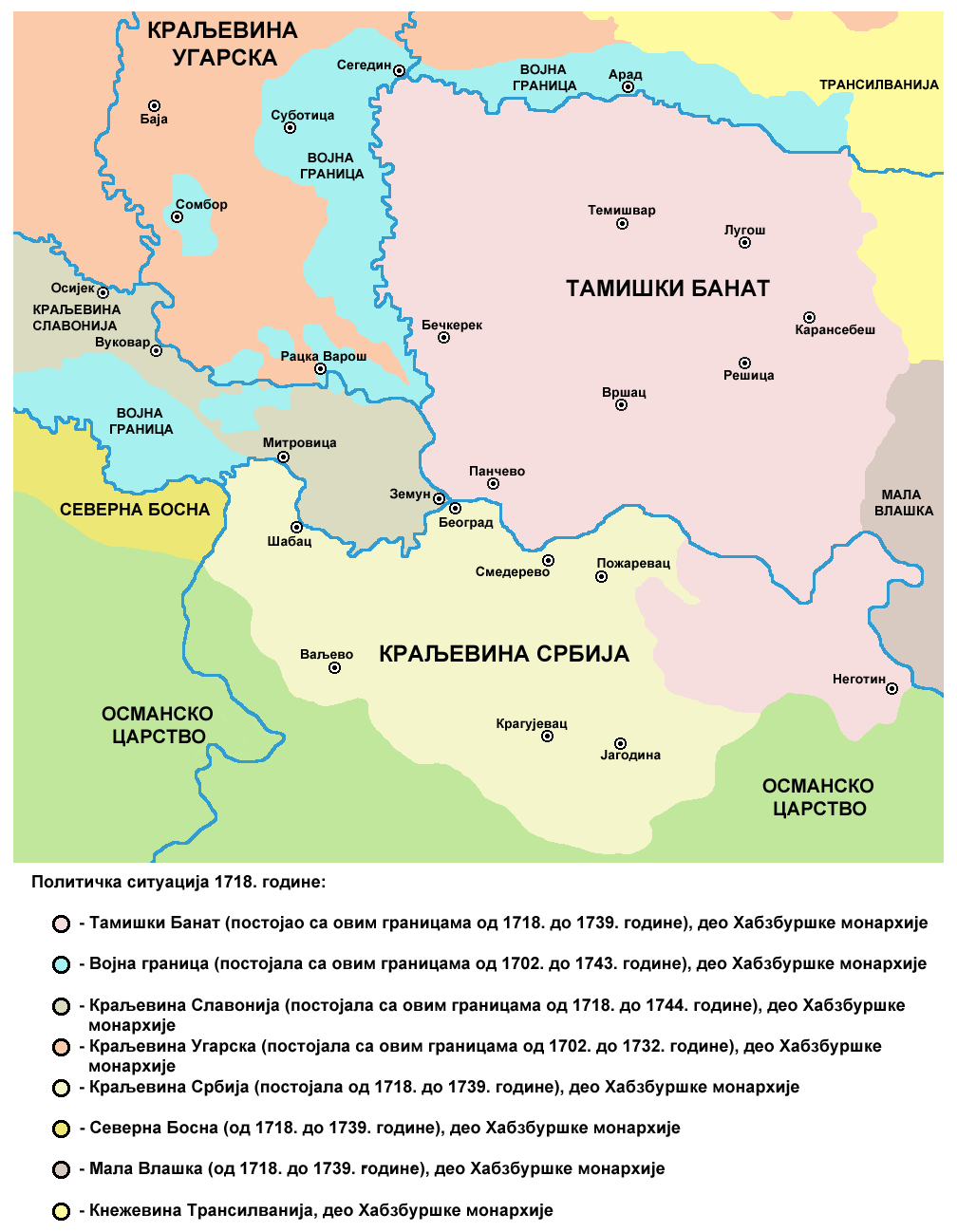 Map of the Banat of Temeswar, Kingdom of Serbia and Military Frontier in 1718.